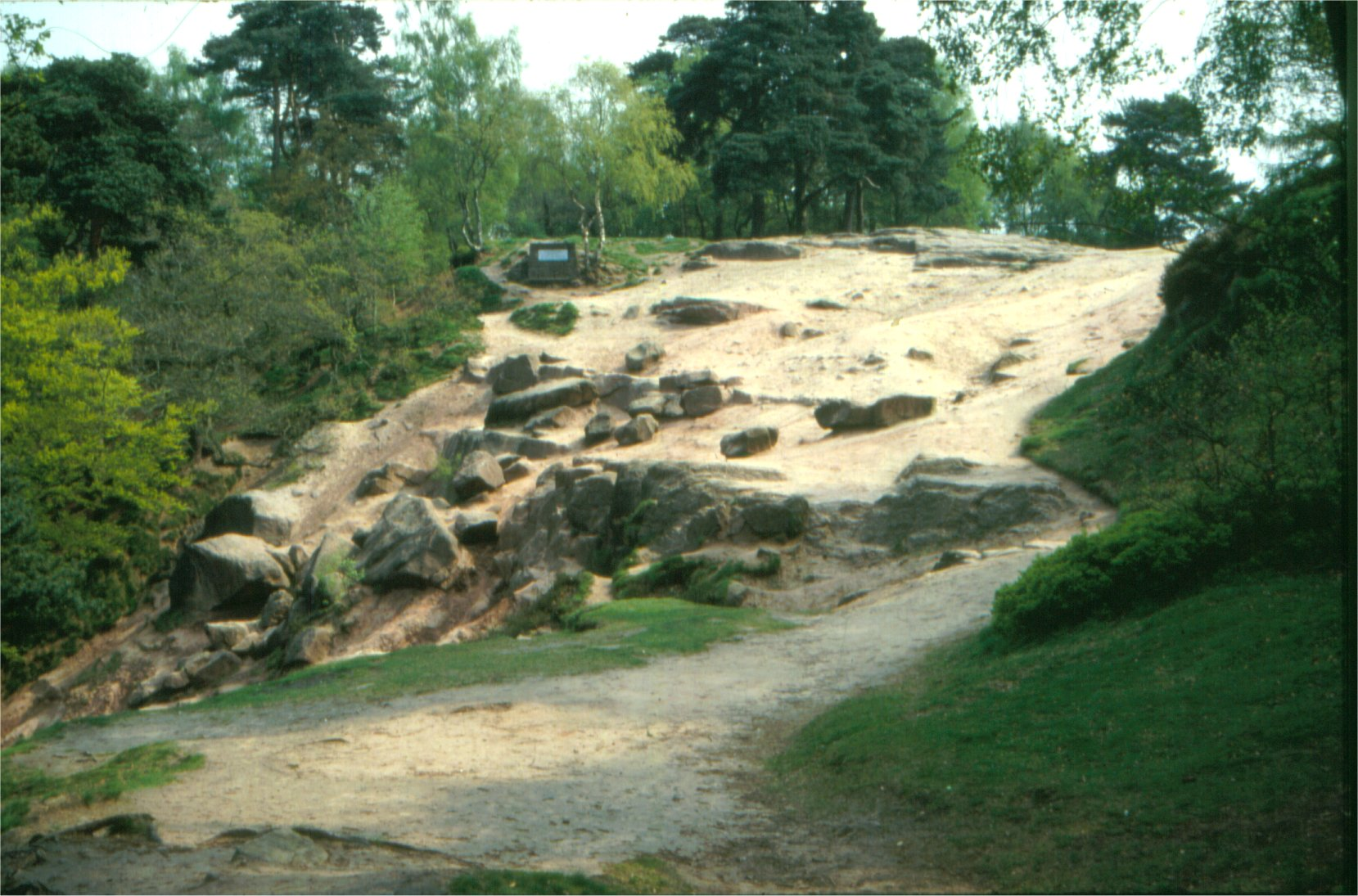 Stormy Point, Alderley Edge, Cheshire. Taken by Geotek 1993